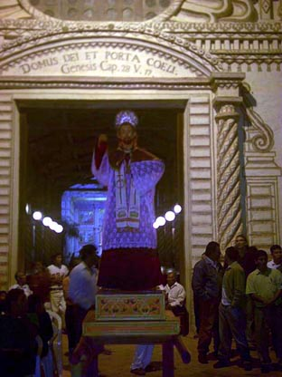 The Señor de San Javier in front of the church in San Javier, Ñuflo de Chávez, Santa Cruz, Bolivia. Part of the Jesuit Missions of the Chiquitos World Heritage Site.